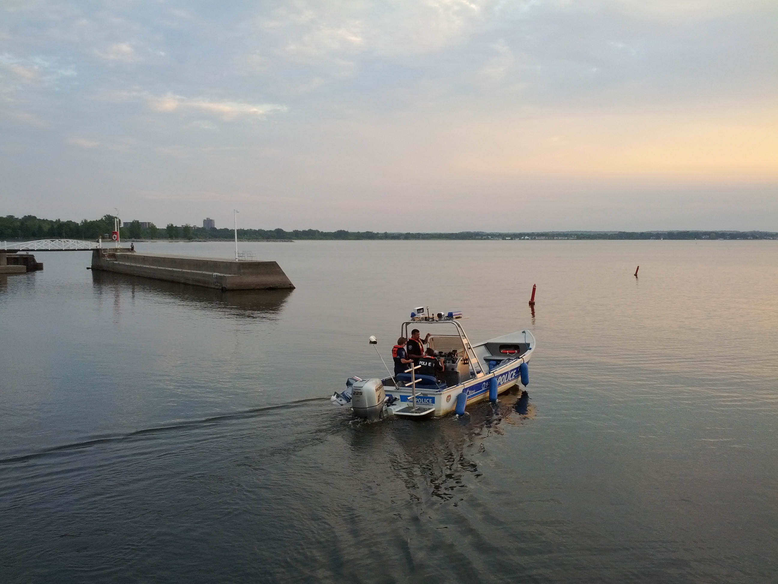 Britannia Yacht Club pier Ottawa Police Service boat, police dive team